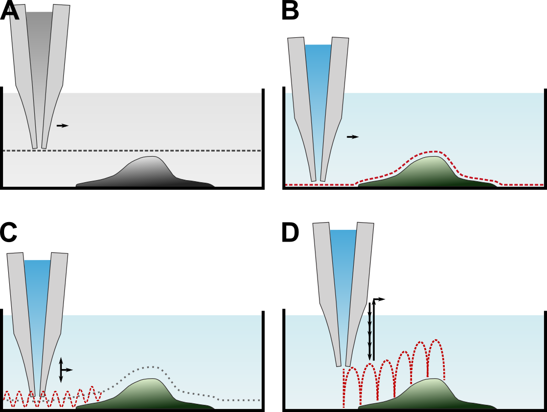 Various scanning modes used in Scanning Ion Conductance Microscopy. A, constant-z-mode: The probe is scanned at a constant z-position and the distance to the sample is reconstructed from the current. B, DC or constant distance mode: The probe is approached until a predefined threshold resistance is reached. The probe is then moved laterally and the distance between tip and sample is maintained by a feedback system. C, AC-mode: The probe position is additionally modulated sinuusoidally, instead of the direct current signal, the changes in amplitude of the alternating current component are used as the feedback signal. D, backstep or hopping mode: The probe is advanced towards the sample surface at every single pixel. This is a rearrangement of the Figure 4 from Happel et al.: Sensors 12, 2012